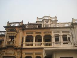 PRINCELY ESTATE HOME OF ASHU SINGH:CHOTU SINGH,ASHU SINGH,DEEPAK SINGH,DHEERAJ SINGH,GUDDU SINGH,LAAL SINGH, NEERAJ SINGH,SANTOSH SINGH,MANOJ SINGH,BOBBY SINGH,VIBHU SINGH,AVIJIT SINGH (BHAIYA SINGH),BISSU SINGH,SONU SINGH,TIMMU SINGH,GOLU SINGH,SUNIL SINGH,SANDEEP SINGH,SANTOSH SINGH